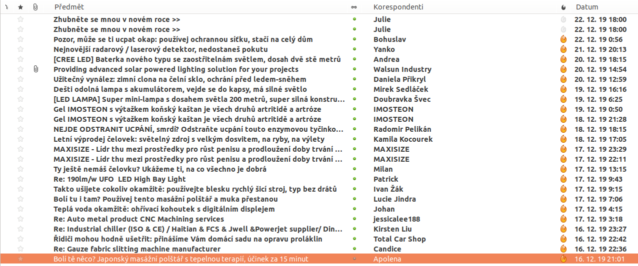 Examples of email spam in e-mail client (Thunderbird)